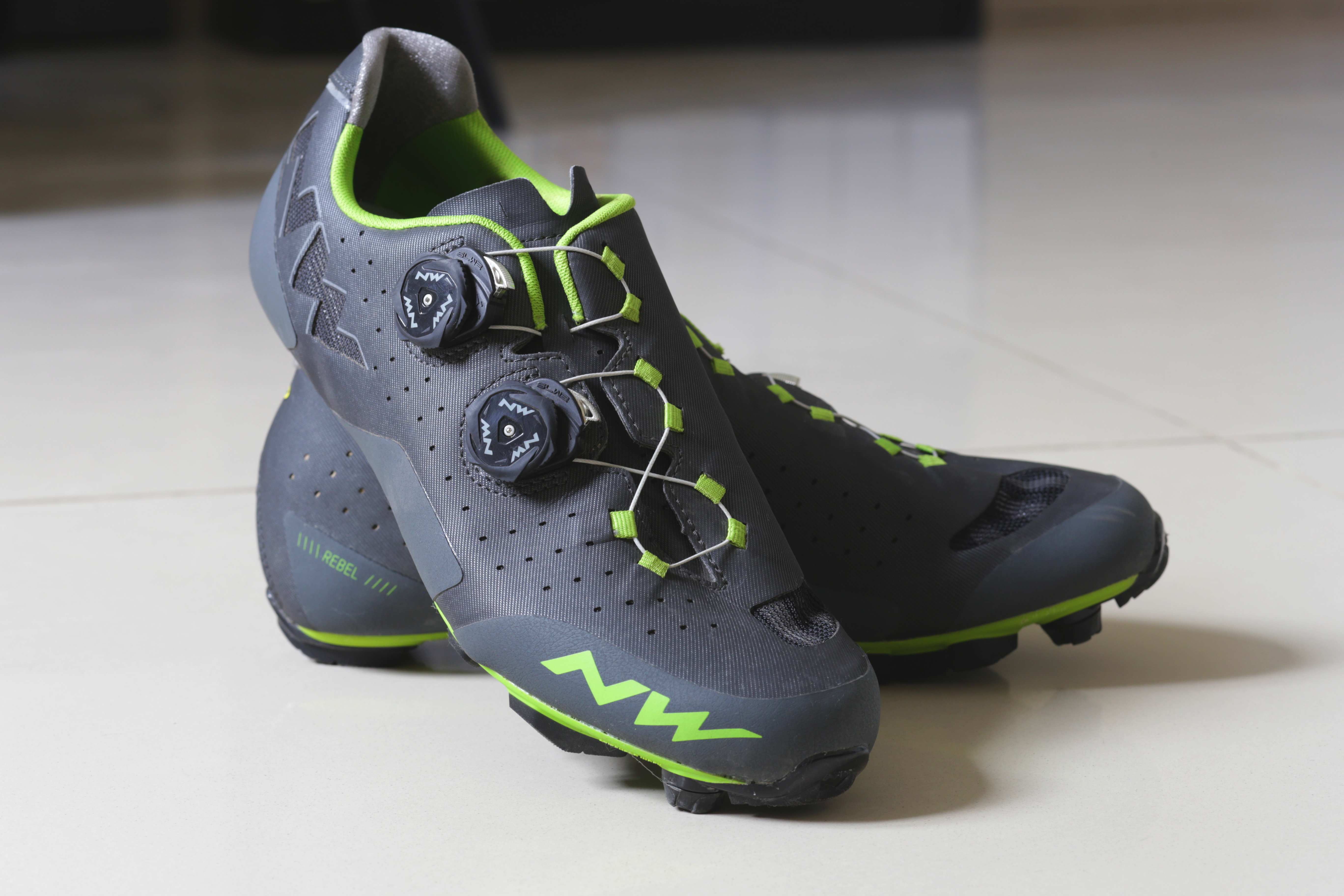 Northwave Rebel 2018 shoes for mountain biking with two S.L.W.2 knobs